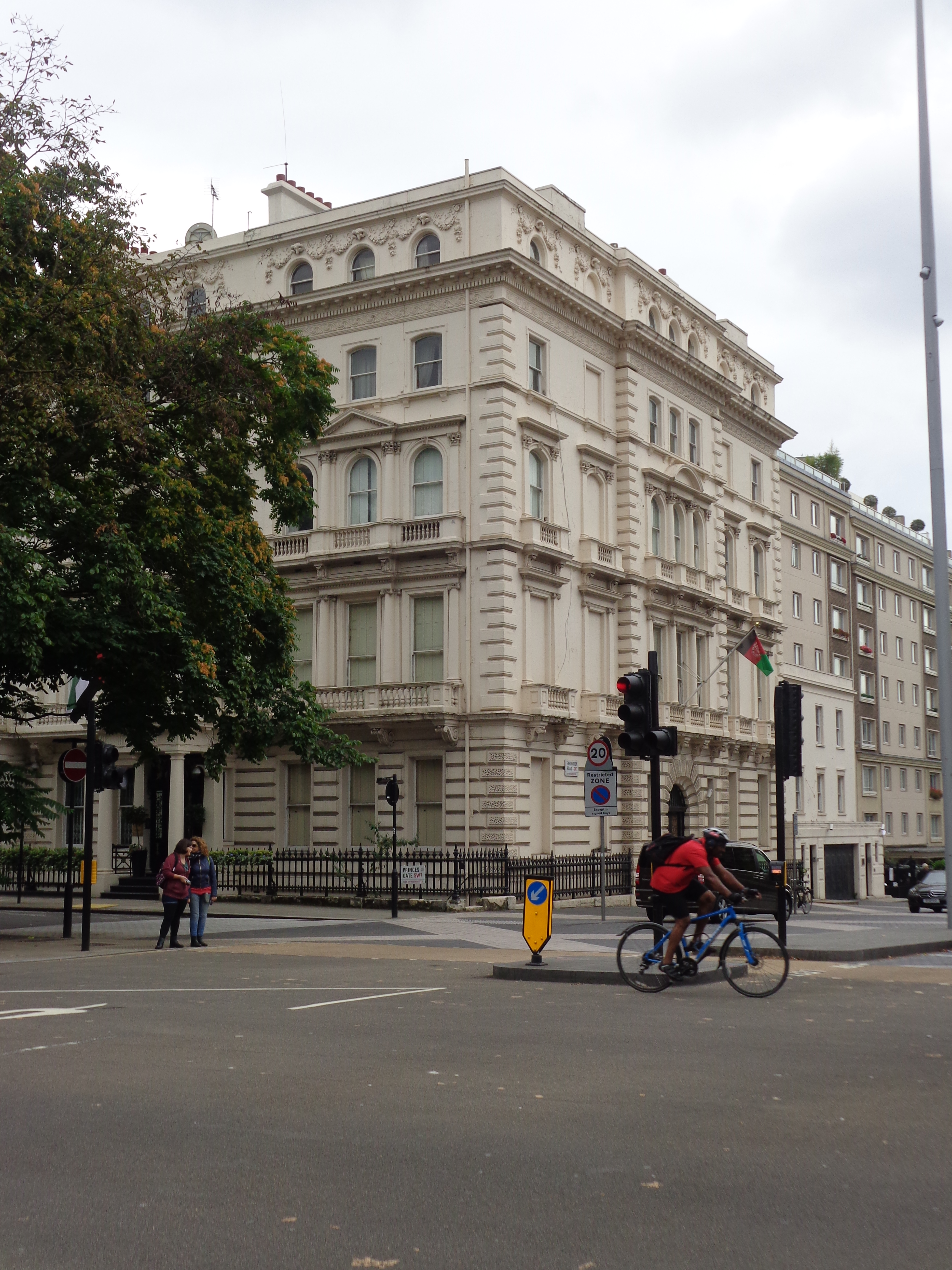 Embassy of Afghanistan, Princes Gate, City of Westminster London. Taken around midday on Thursday the 25th of September 2014.